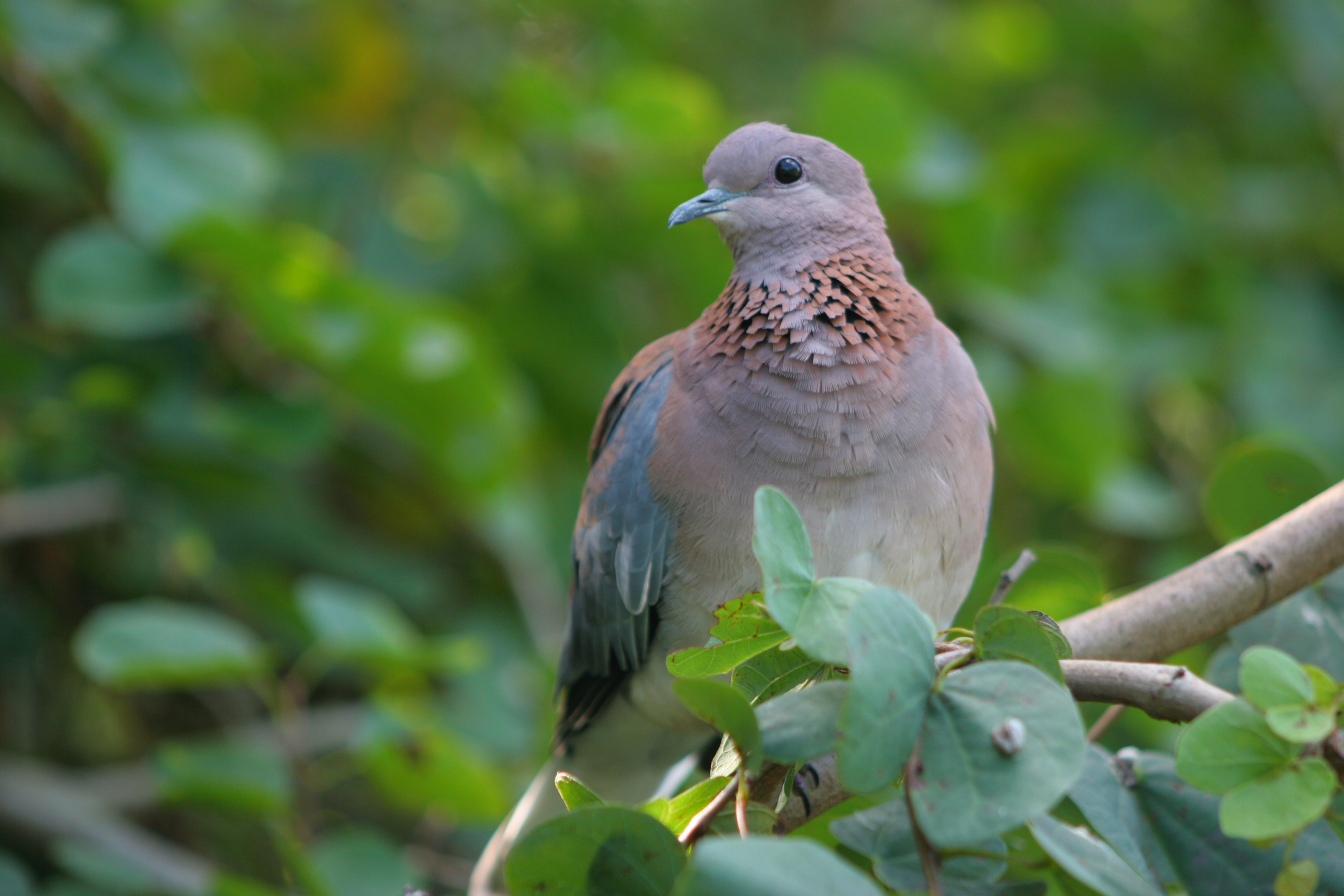 Streptopelia senegalensis, taken at Birds of Eden, South Africa